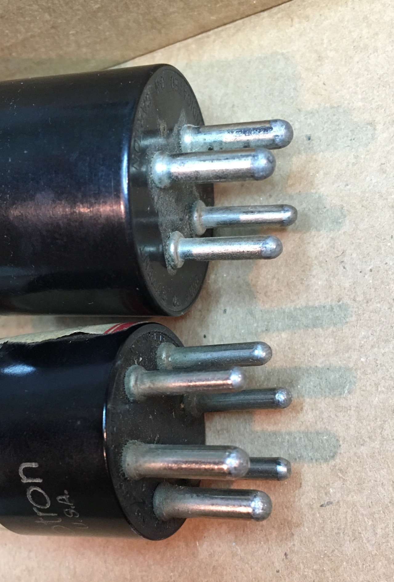 A pair of tube bases, UX-4 (top) and UX-6 (bottom).